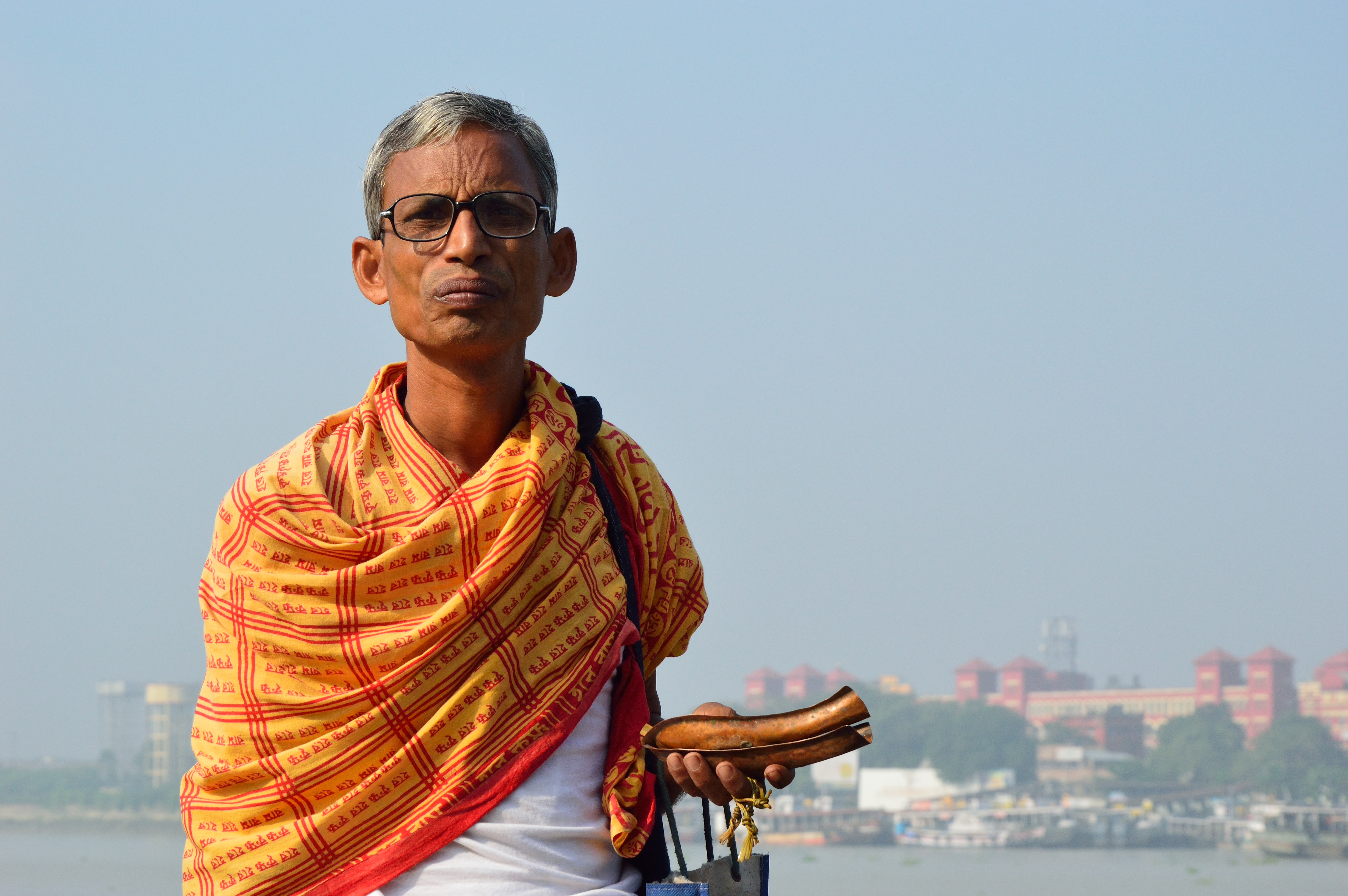 Photographed in Kolkata on 'Mahalaya' day, India.